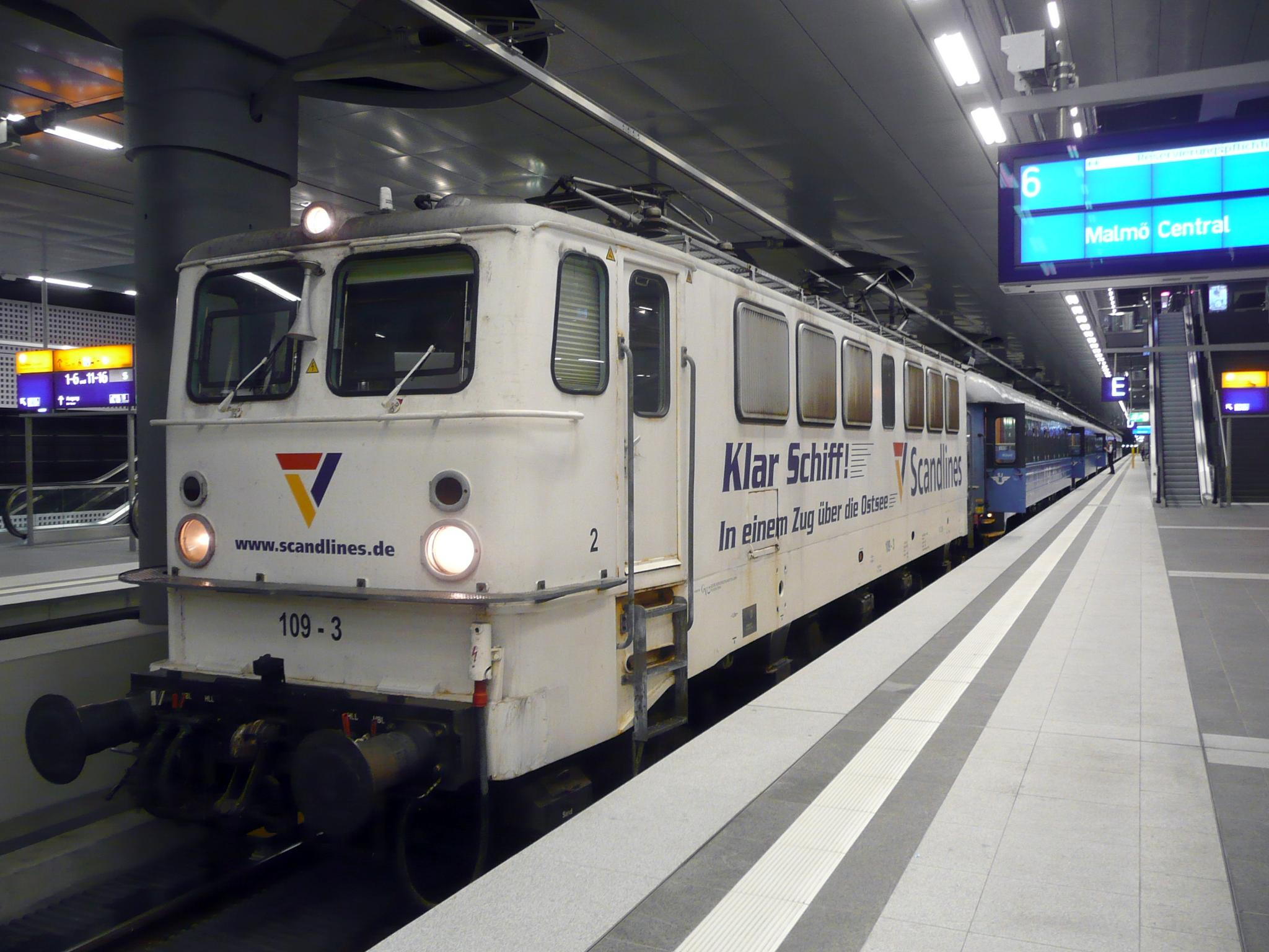 Berlin-Night-Express to Malmö at Berlin Hauptbahnhof lower level track 6. Locomotive 109-3 of Georg Verkehrsorganisation, sleeping-cars WL5DE and couchette cars BC2DE of the SJ AB.